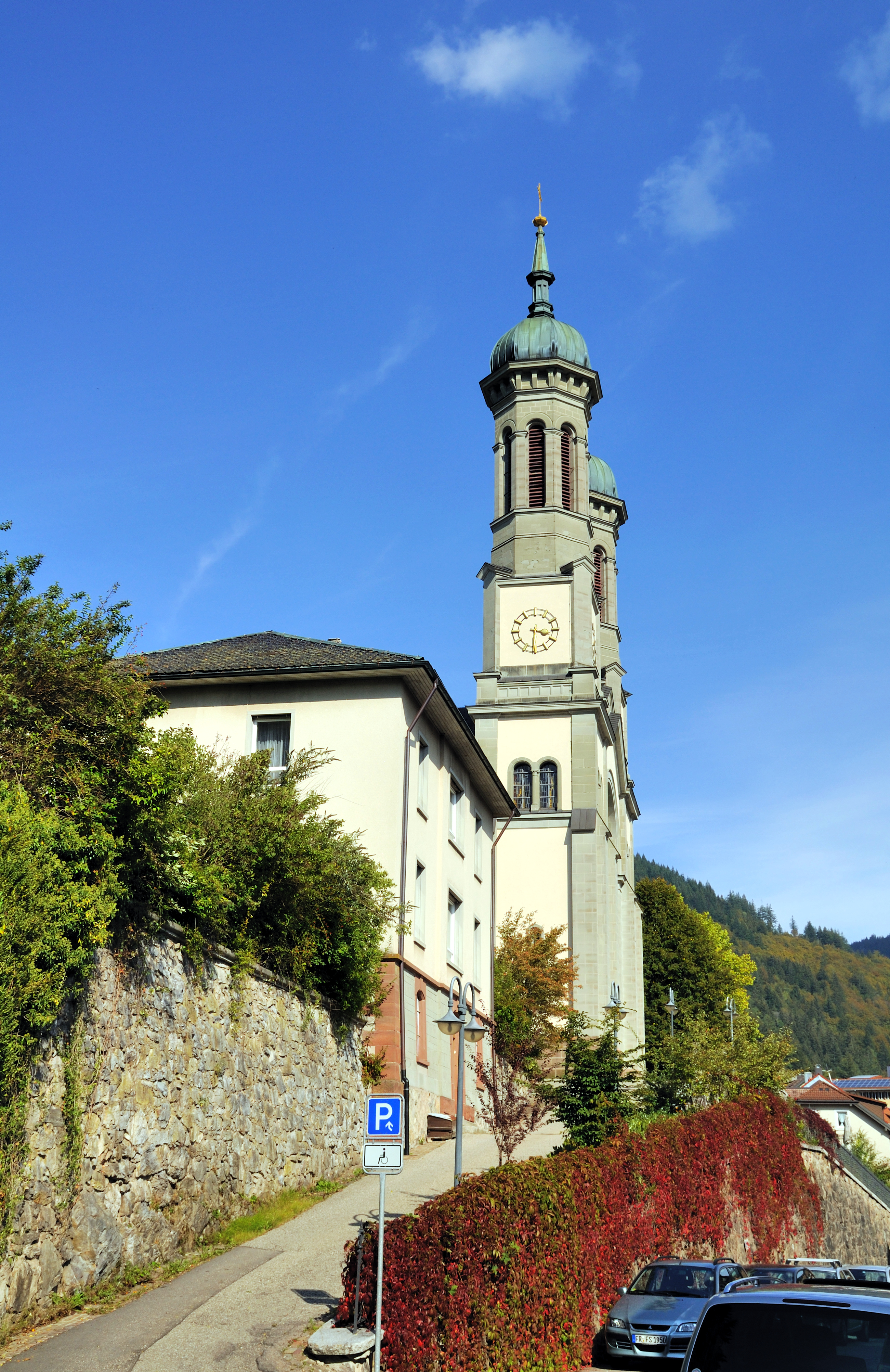 Todtnau: Saint John the Baptist Church, southern ramp